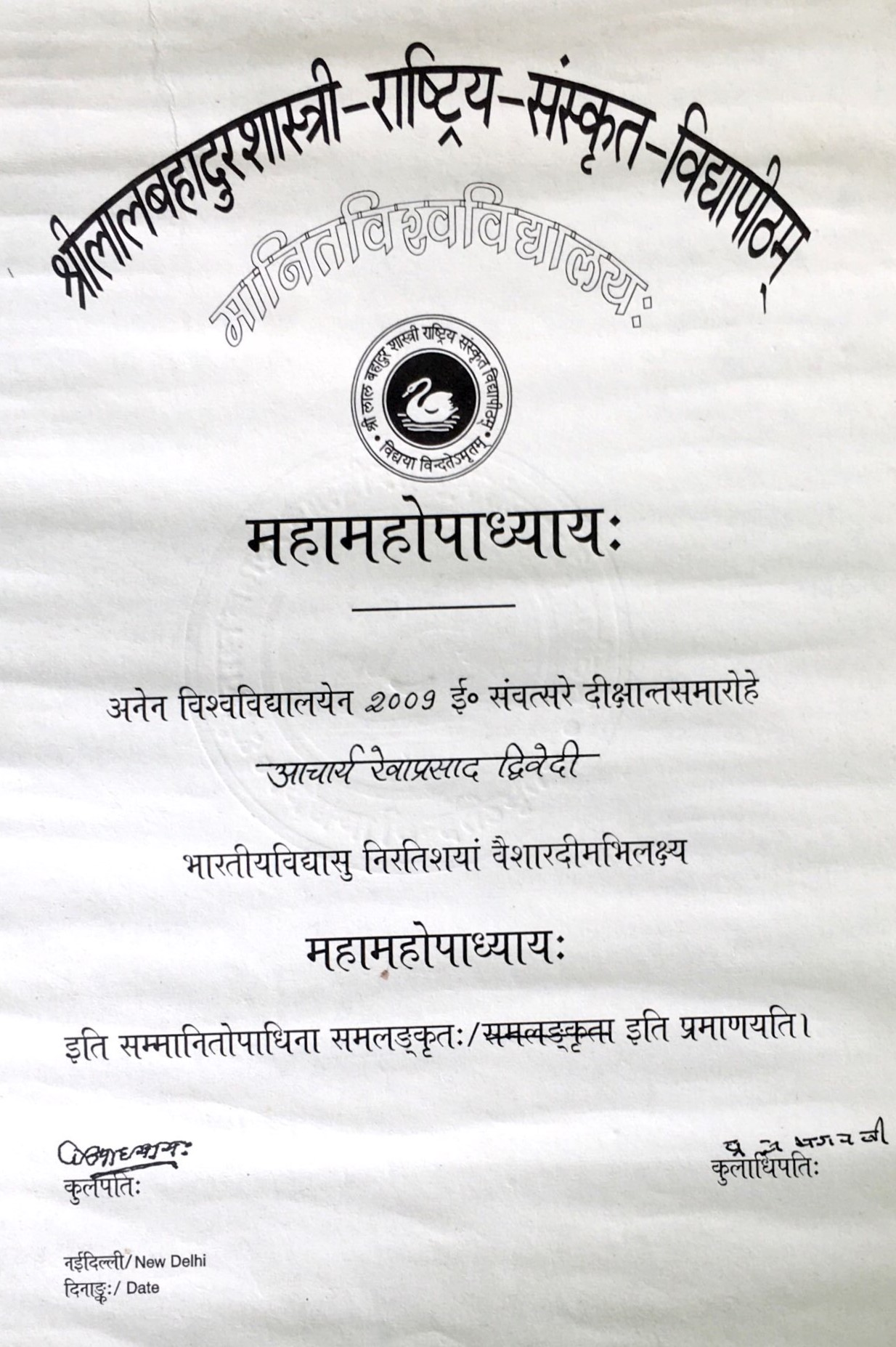 The Honorary title of Mahamahopadhyaya, conferred upon Acharya Dwivedi by Lal Bahadur Shastri Rashtriya Sanskrit Vidyapitham at its convocation in 2009